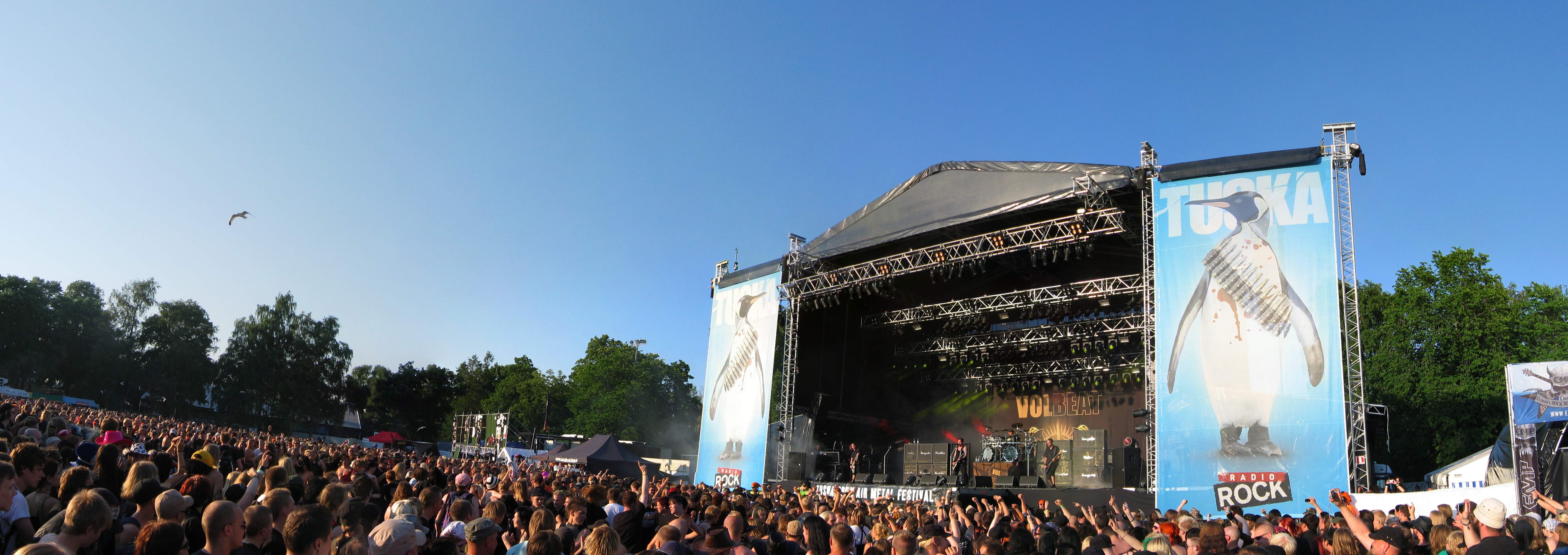 Volbeat playing as the main act of sunday in Tuska Open Air Metal Festival 2009. This image is a panorama, consisting of multiple images